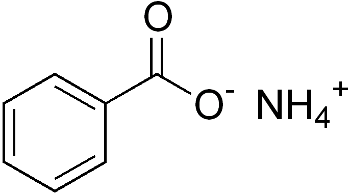 chemical structure of ammonium benzoate